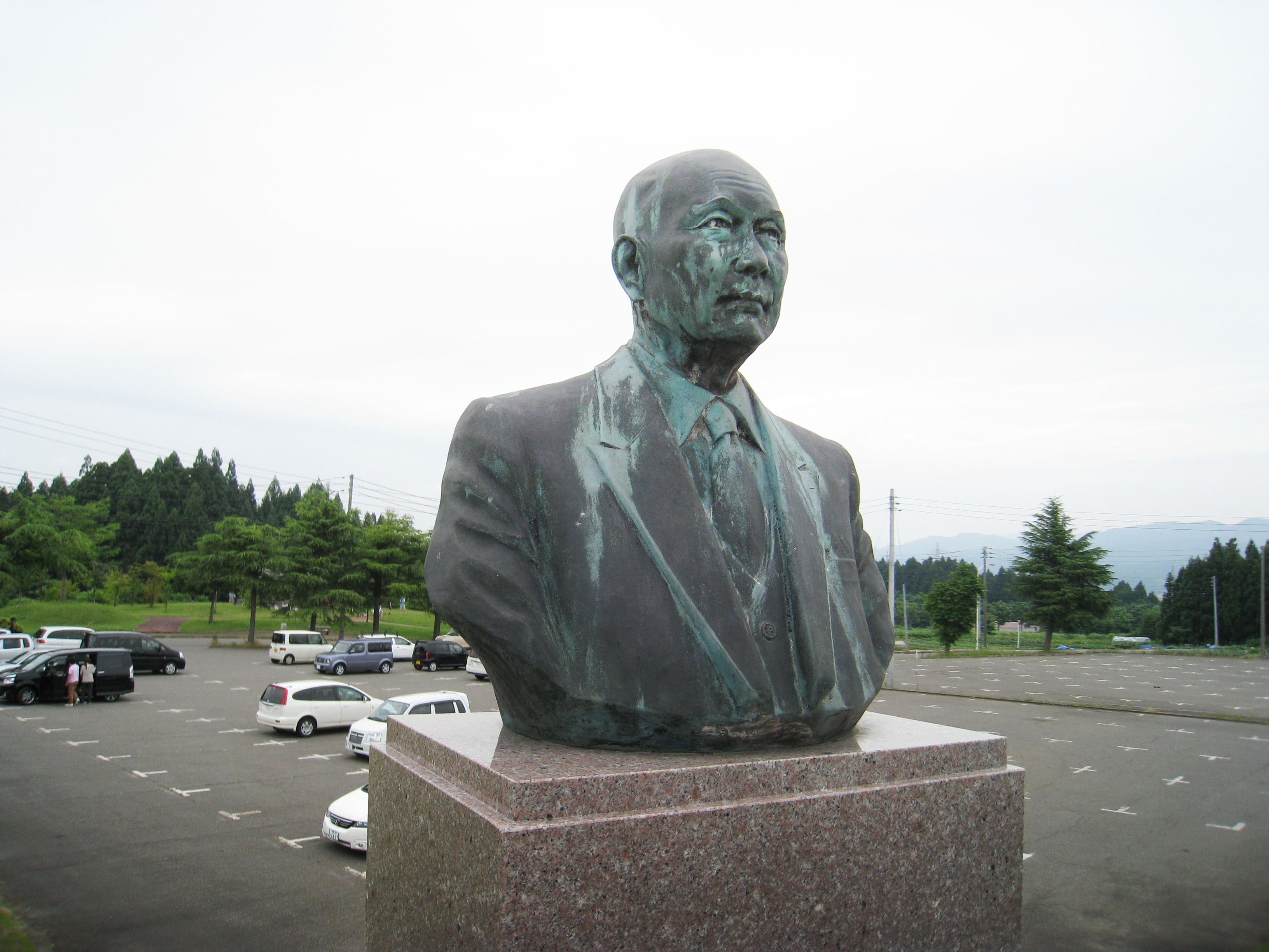 Toshi Kaneko. Fuji Bank President. Nippon Professional Baseball Commissioner.